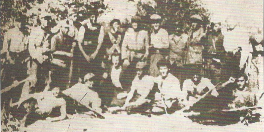 Participants of the Prespa Meeting (2.8.1943)